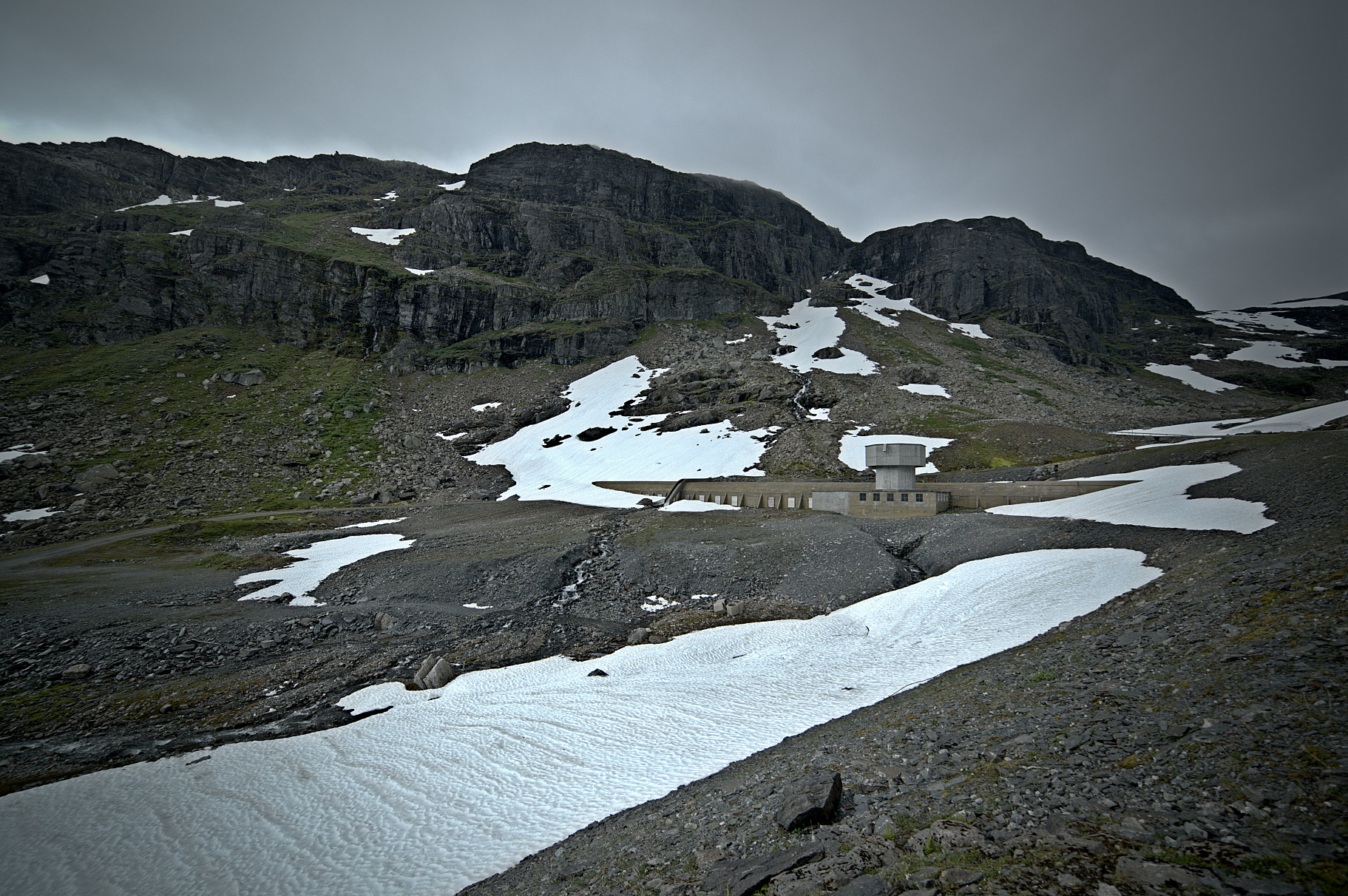 Haukeli tunnel at Dyreskar